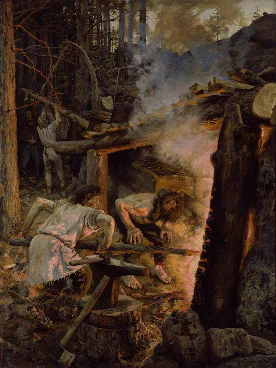 Ilmarinen forging the Sampo